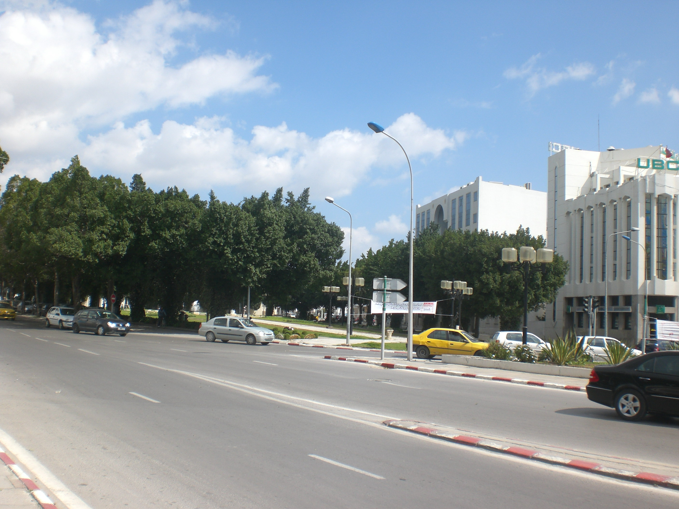 Pasteur square in Tunis